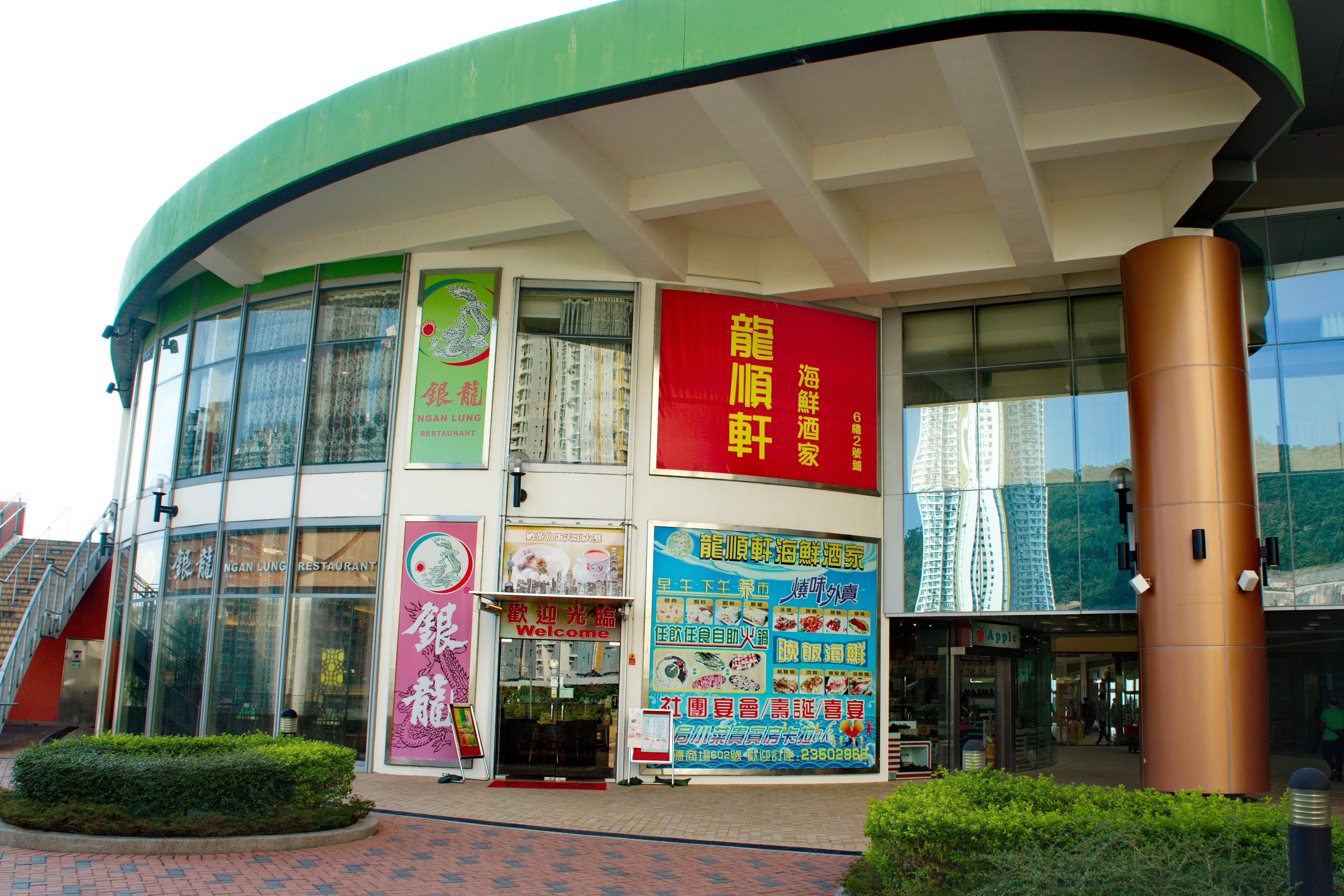 Ngan Lung Restaurant in the Choi Tak Shopping Centre, Ngau Tau Kok, Kwun Tong, Kowloon, Hong Kong.